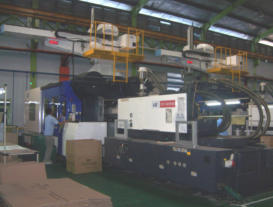 A 1300 ton injection molding machine with robotic arm. Location: Bekasi, Indonesia